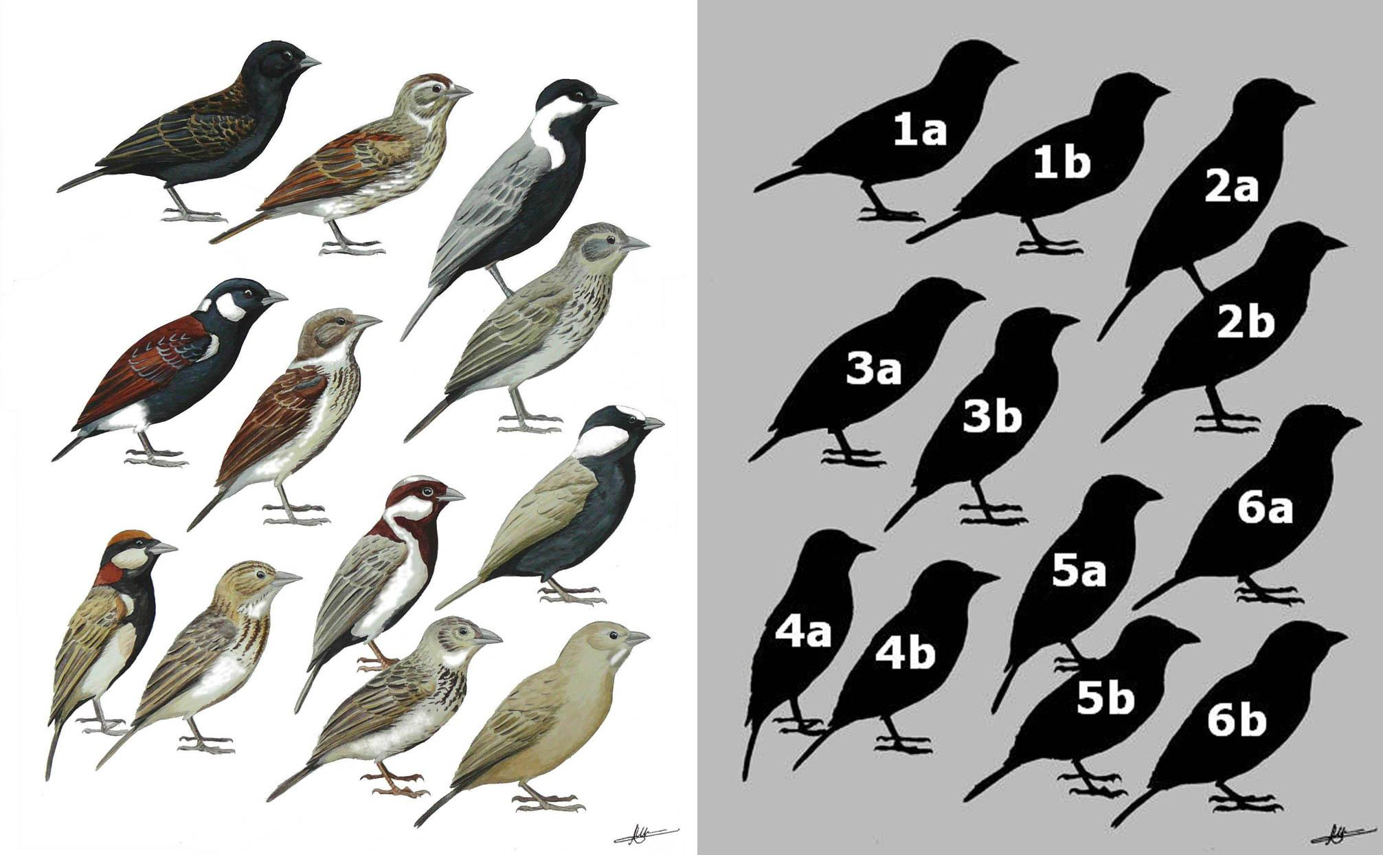 The six species of Sparrowlarks on the African mainland – Risso Romain, Nice